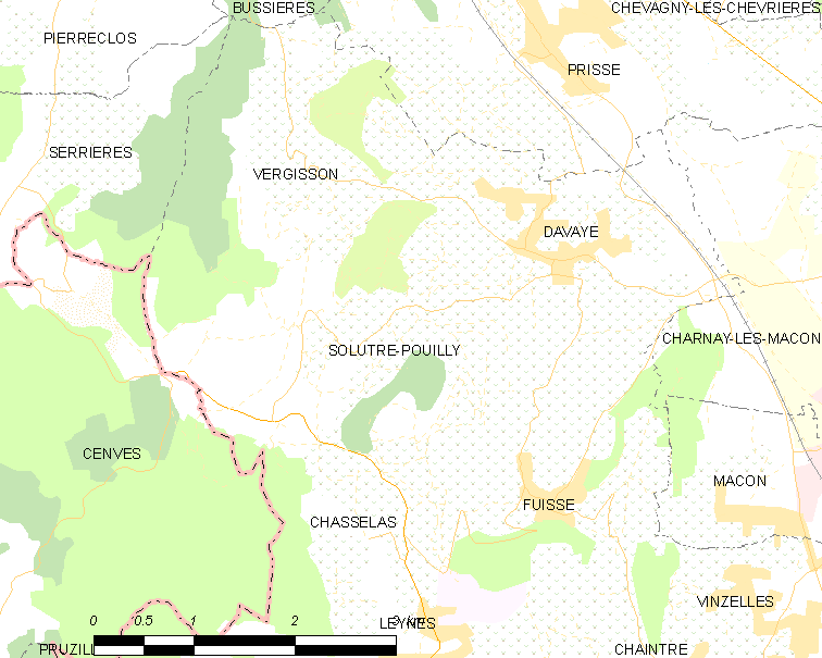 Map of French municipality